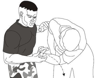 From USMC MCRP 3-02B Close Combat February 1999, Section 8-2. Partial image.